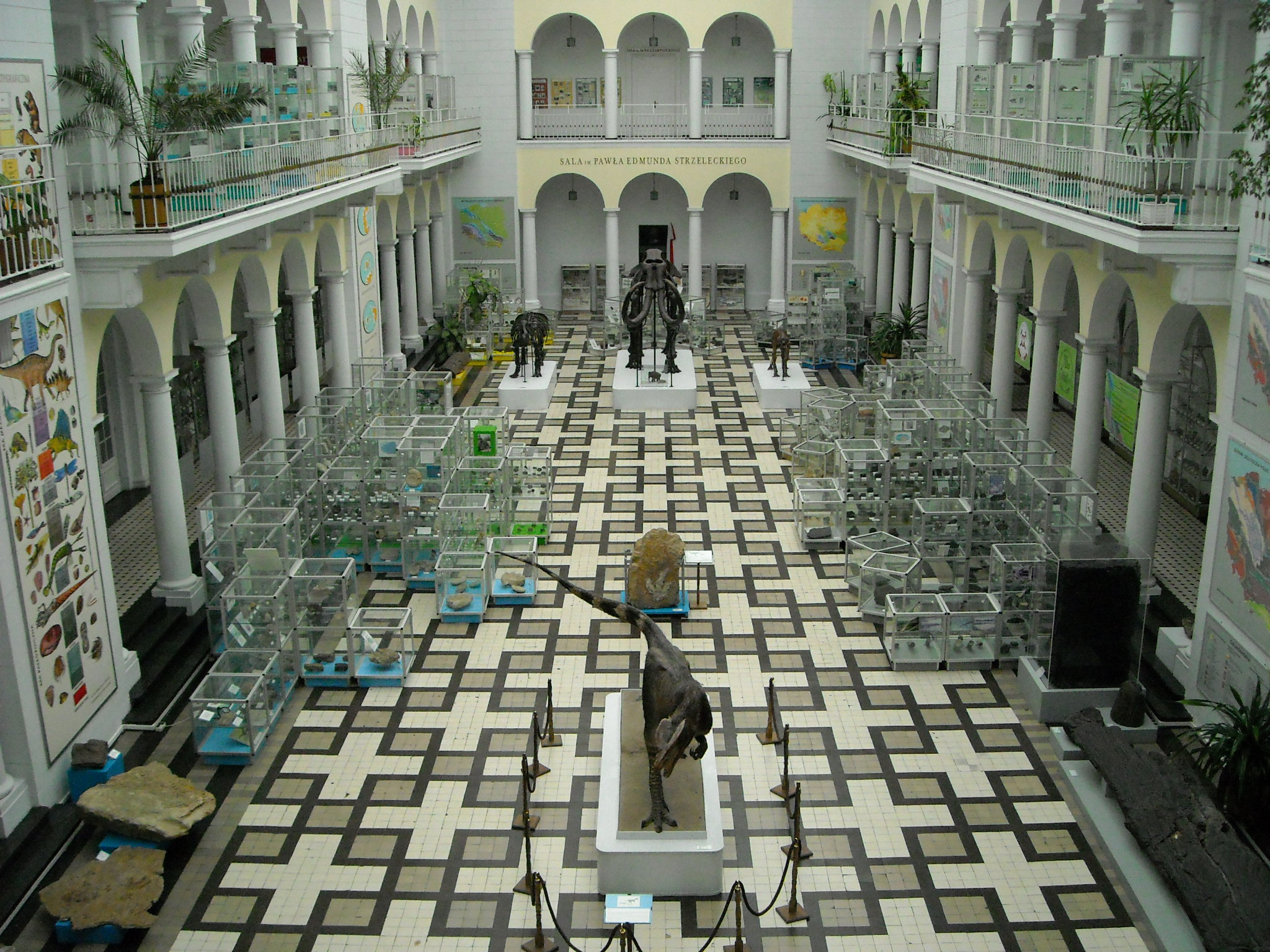 The Paweł Edmund Strzelecki hall in the Geological Museum of the Polish Geological Institute in Warsaw.